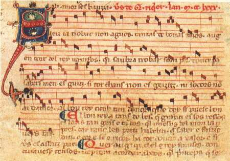 Song of Guiraut Riquier from chansonnier manuscript BnF 22543, folio 107r.